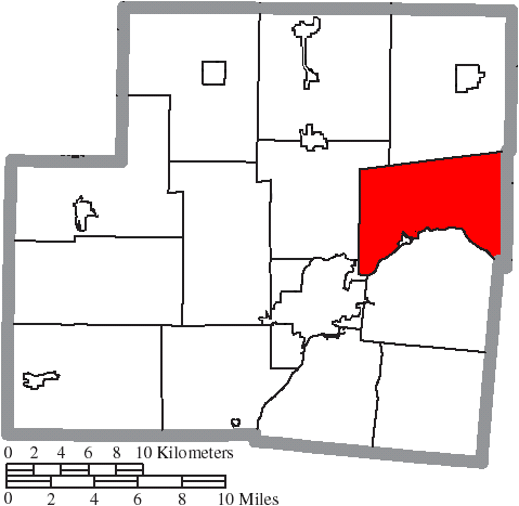 Map of the municipal and township boundaries of Shelby County, Ohio, United States, as of the 2000 census, with the location of Salem Township highlighted. Township borders are shown only in unincorporated areas in order to differentiate incorporated and unincorporated areas more clearly.